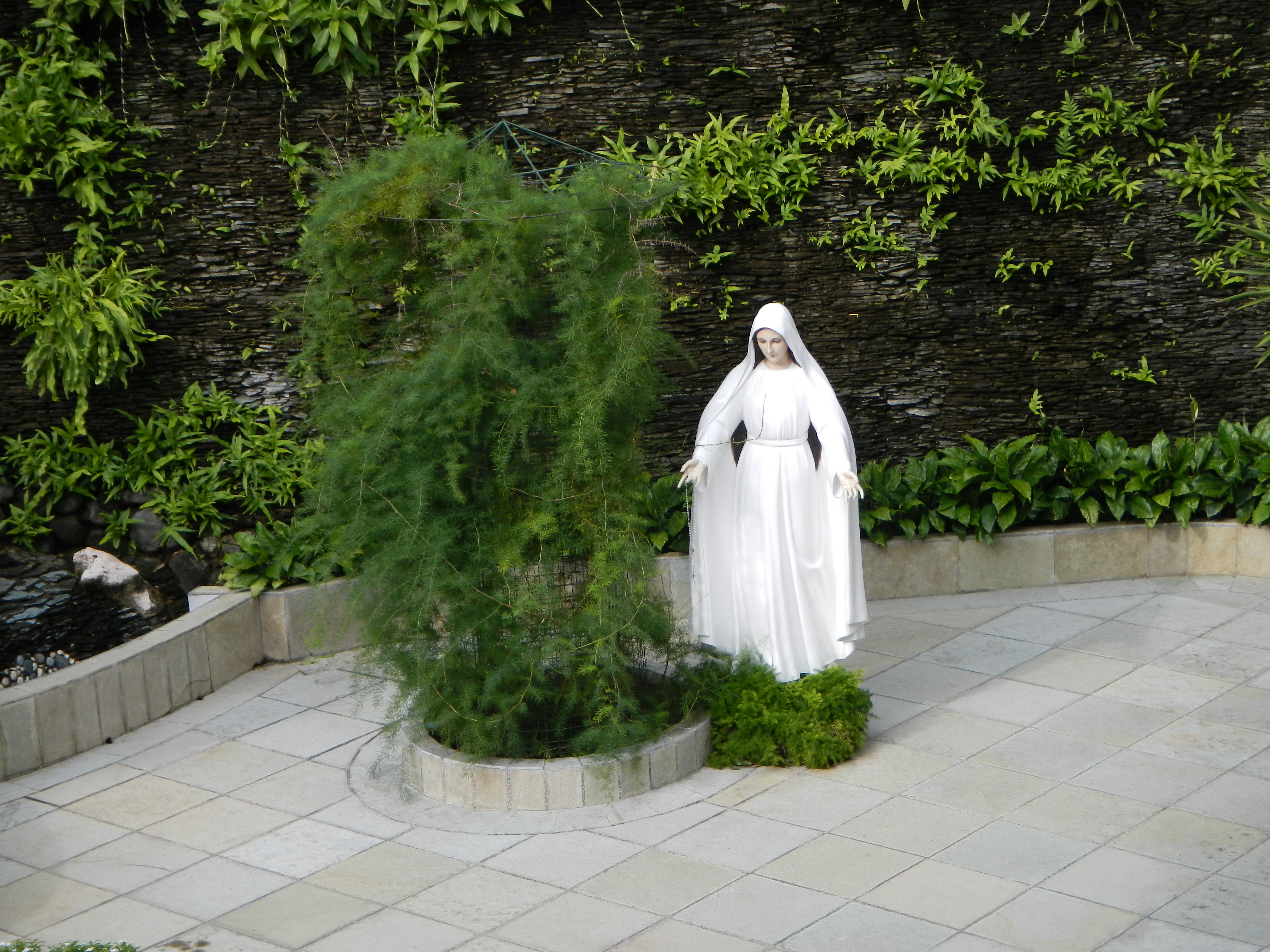 Our Lady Mediatrix of All Graces [1] Our Lady of Mediatrix of All Graces (Spanish: Nuestra Senora de la Medianera de toda gracia